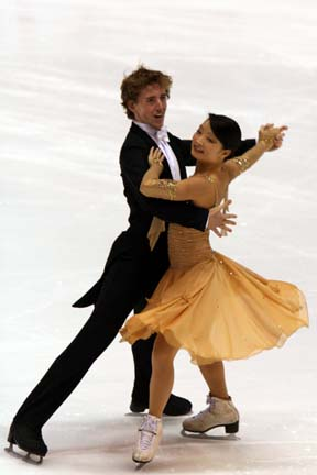 Pilar Bosley & John Corona perform the Viennese Waltz compulsory dance at the 2007-2008 Junior Grand Prix event in Lake Placid, New York, United States. They placed second in this segment of the competition and won the bronze medal overall.